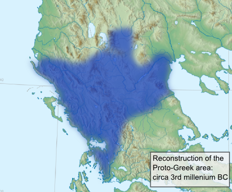 Reconstruction of the proto (primitive) Greek area in ca. 3rd millenium BC